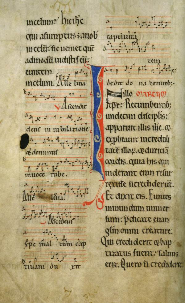 Skaramissalet (i.e. "The Skara Missal") is a mediaeval liturgical book from Skara Cathedral. It is probably the oldest book in Sweden, and it is dated to around 1150, this page shows the Alleluia for Ascension Day